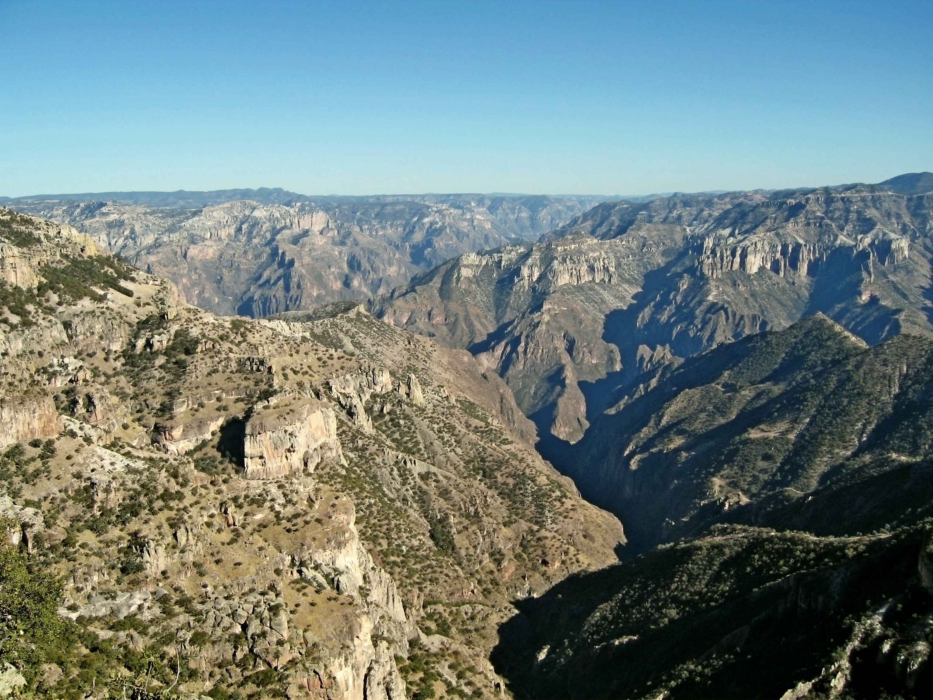 view on the copper canyon (barranca del cobre) in Chihuahua, Mexico. Picture taken February 2006 by Jens Uhlenbrock.